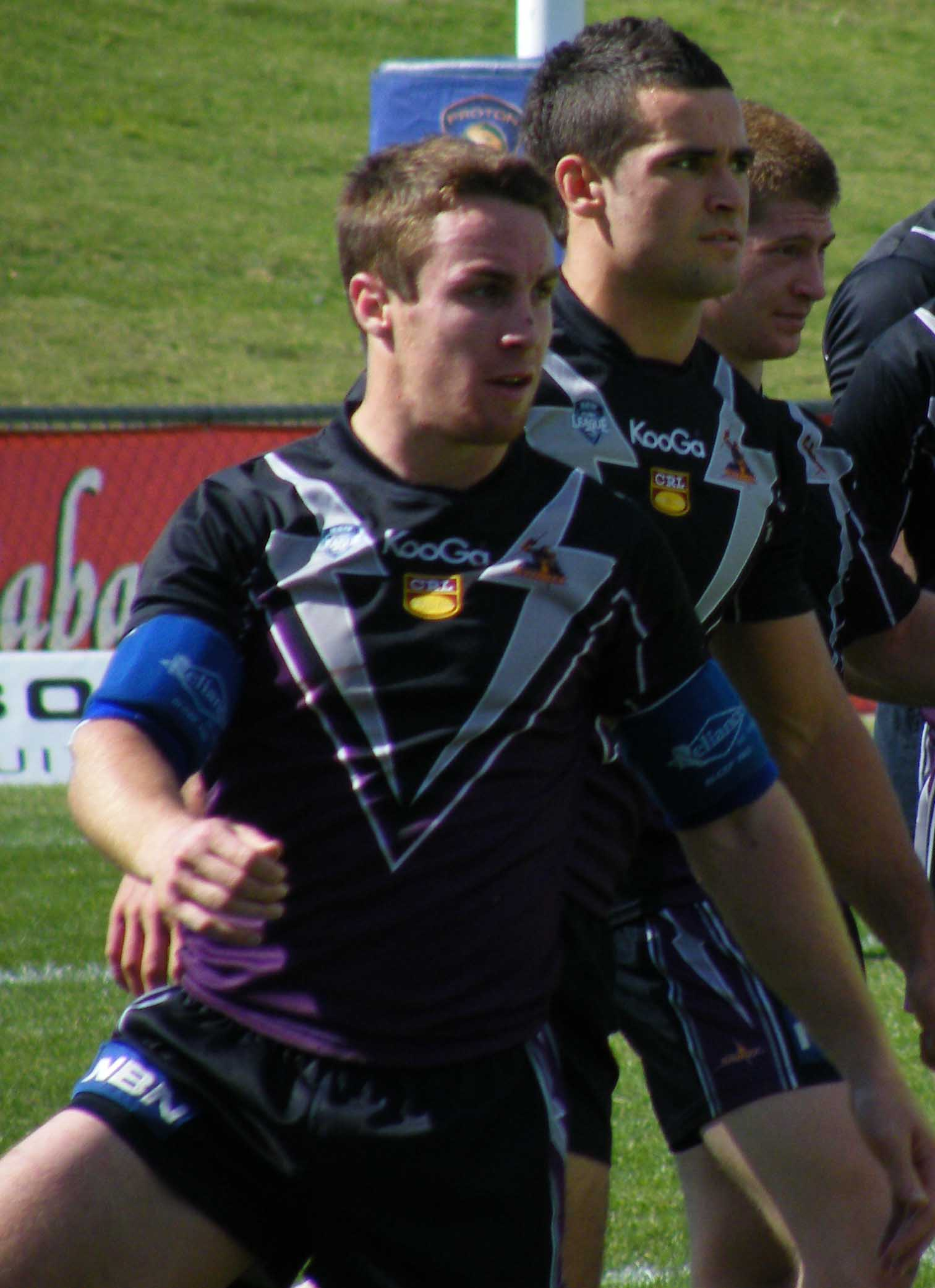 James Maloney of the Central Coast Storm